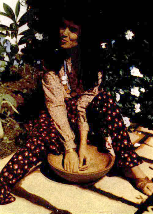 Metouali (Shia) Woman of the B'kaa Valley The long fitted pantaloons with their wide ruffle flaring out over the ankle are the most distinguishing feature of the costume. The dress itself is of the most simple, long-sleeved style. It is practical for the working woman since it reaches below the knees. The Metouali woman's headdress is a black veil tied around the head with a folded scarf.